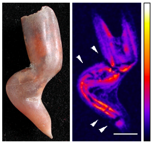 Gonioteuthis quadrata (Blainville, 1827) guard with a zigzag-like deformation. (A): lateral view (photomicrograph). (B): median MR section. Sublethal injury with fracture of the rostrum. Arrow heads indicate fractures. The corresponding slice series (in steps of 125 μm) with this orientation is given in File:3D MRI of pathological Gonioteuthis quadrata - fracture of the rostrum.ogv. Acquisition parameters: Field of view (FOV): 15×15×32 mm3. Number of averages (NA): 2. Total acquisition time (Ta): 18 h. Colour scale: MR signal intensity in arbitrary units (identical for all MR images). Scale bar: 5 mm.